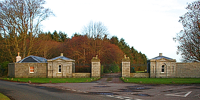 Cairness House Gates These gates are at the south entrance of the kilometre-long drive to Cairness House.